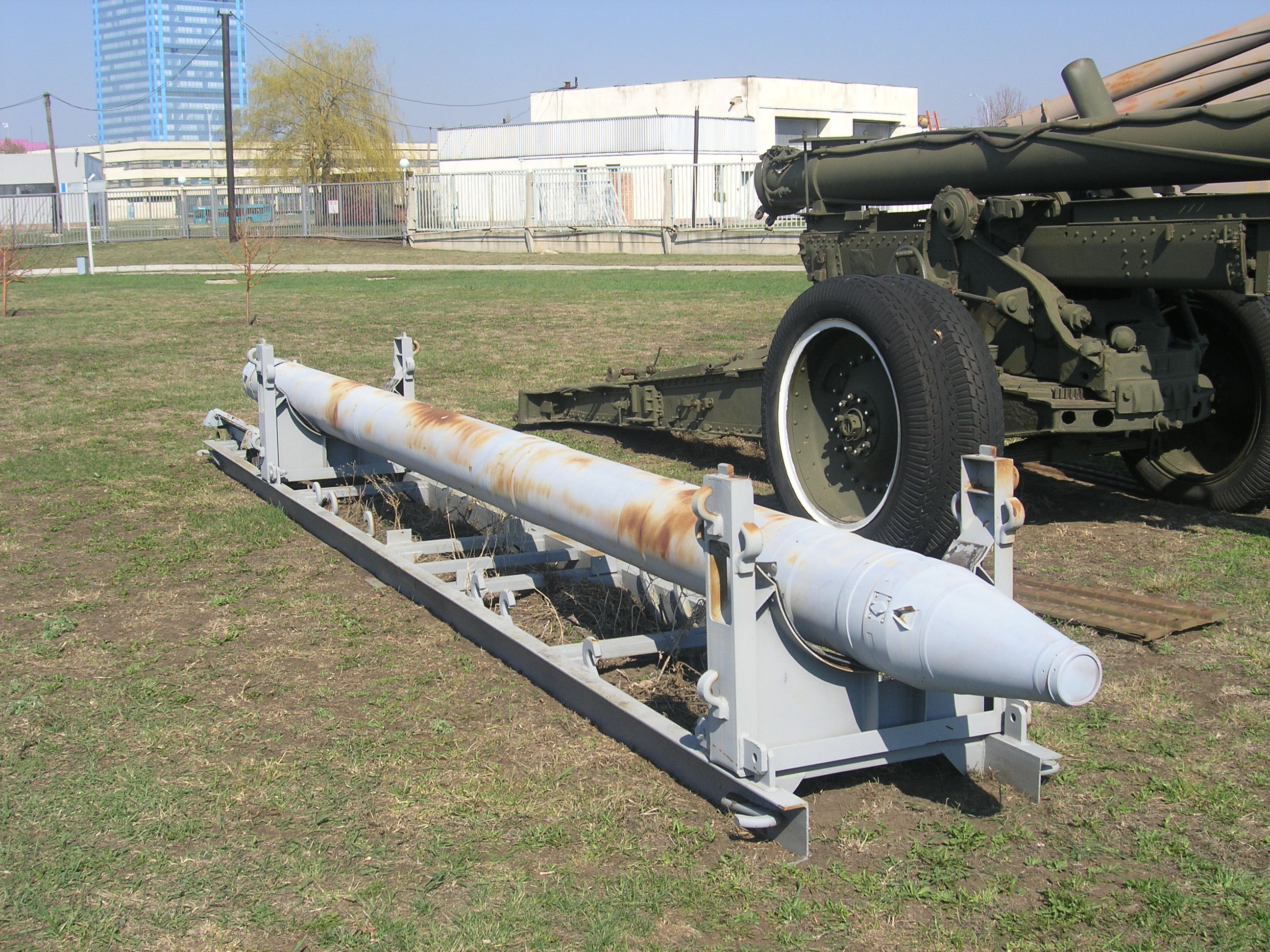 Rocket of 300-mm multiple rocket launching system 9K58 «Smerch» in Technical museum Togliatti